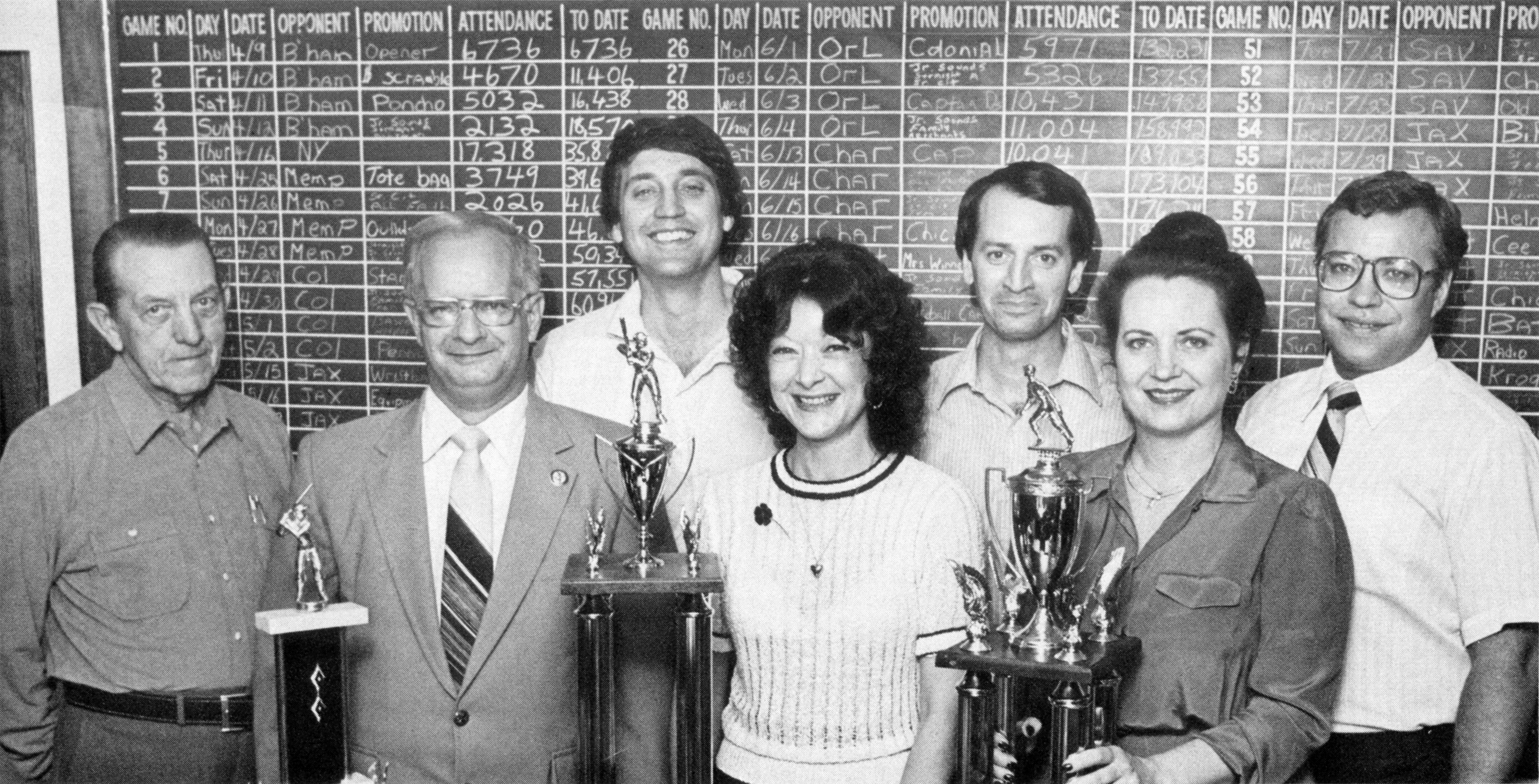 Front office staff members of the Nashville Sounds Minor League Baseball team of the Southern League pose with the Larry MacPhail Trophies won by the team in 1978, 1980, and 1981. Left to right: equipment manager "Rags" Drennon, business manager George Dyce, vice president Farrell Owens, receptionist and secretary Darlene Greer, radio broadcaster Bob Jamison, publicity director Jackie Sullivan, and director of ticket sales Jerry Polk